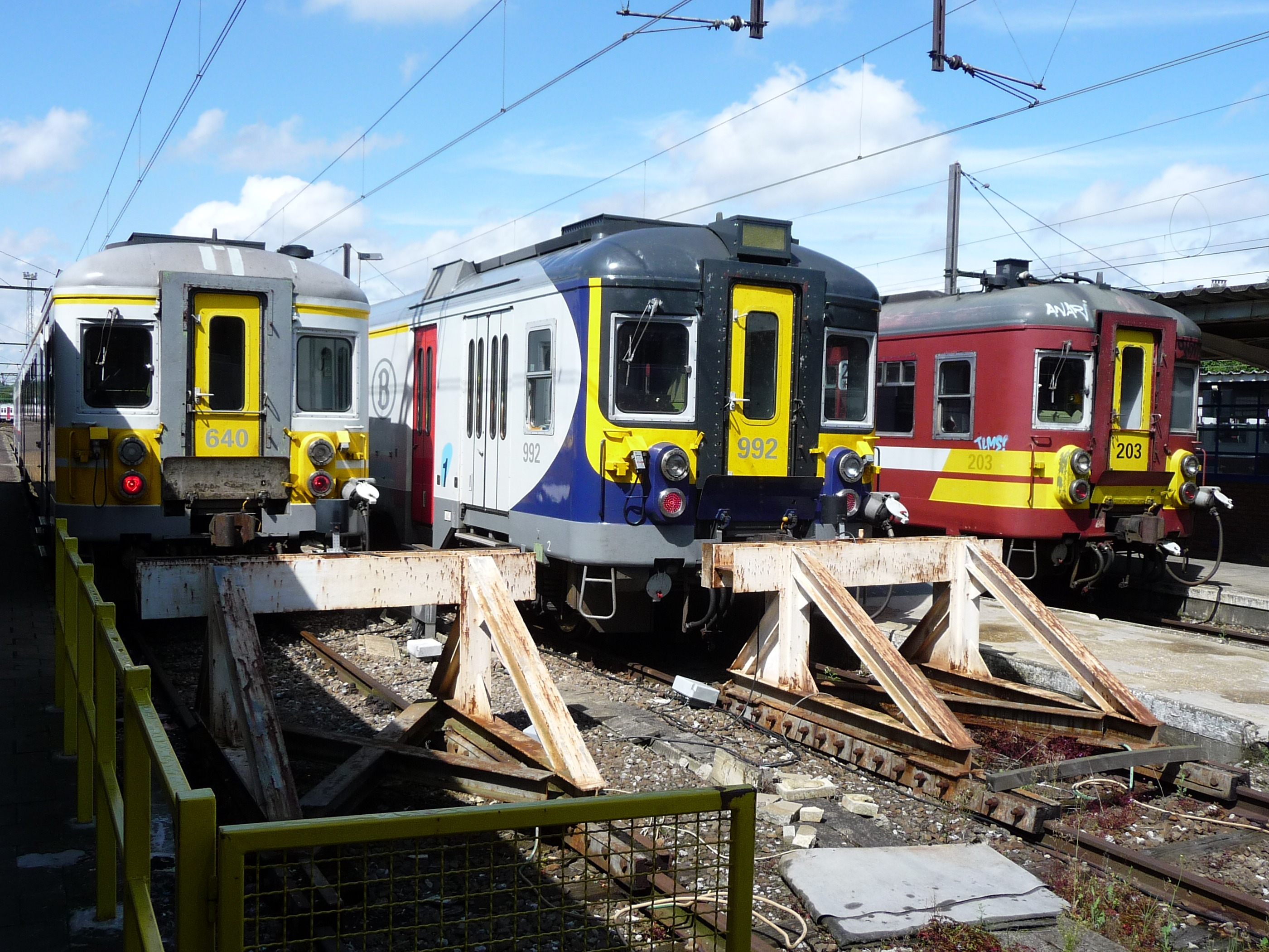 A set of Belgian "classic" electric railcars in station Ottignes (south of Brussel) in 3 different painting schemes (from left to right : AM640 in "milka" painting schemes (from the well known Swiss Chocolates, as this painting schemes was made after a major rebuilt of the interiors in the early 2000's, with purple and white as major colors), AM992 in "Cityrail" painting schemes (as defined in 2007, when the Belgian railways decided to use those old railcars to operate the first lines of the future Regio Express Network under this name) and finally the "classical" bordeaux painting schemes used from the 1980's, and still in use on railcars which are supposed to be scrapped in the next few years. Station Ottignies is at a crossing between two streams (mostly passenger line 161 from Brussels to Namur and Freight corridor Sibelit between the Antwerp port and south Europe). Those 3 tracks are placed between the two lines that surrounds the station's building.